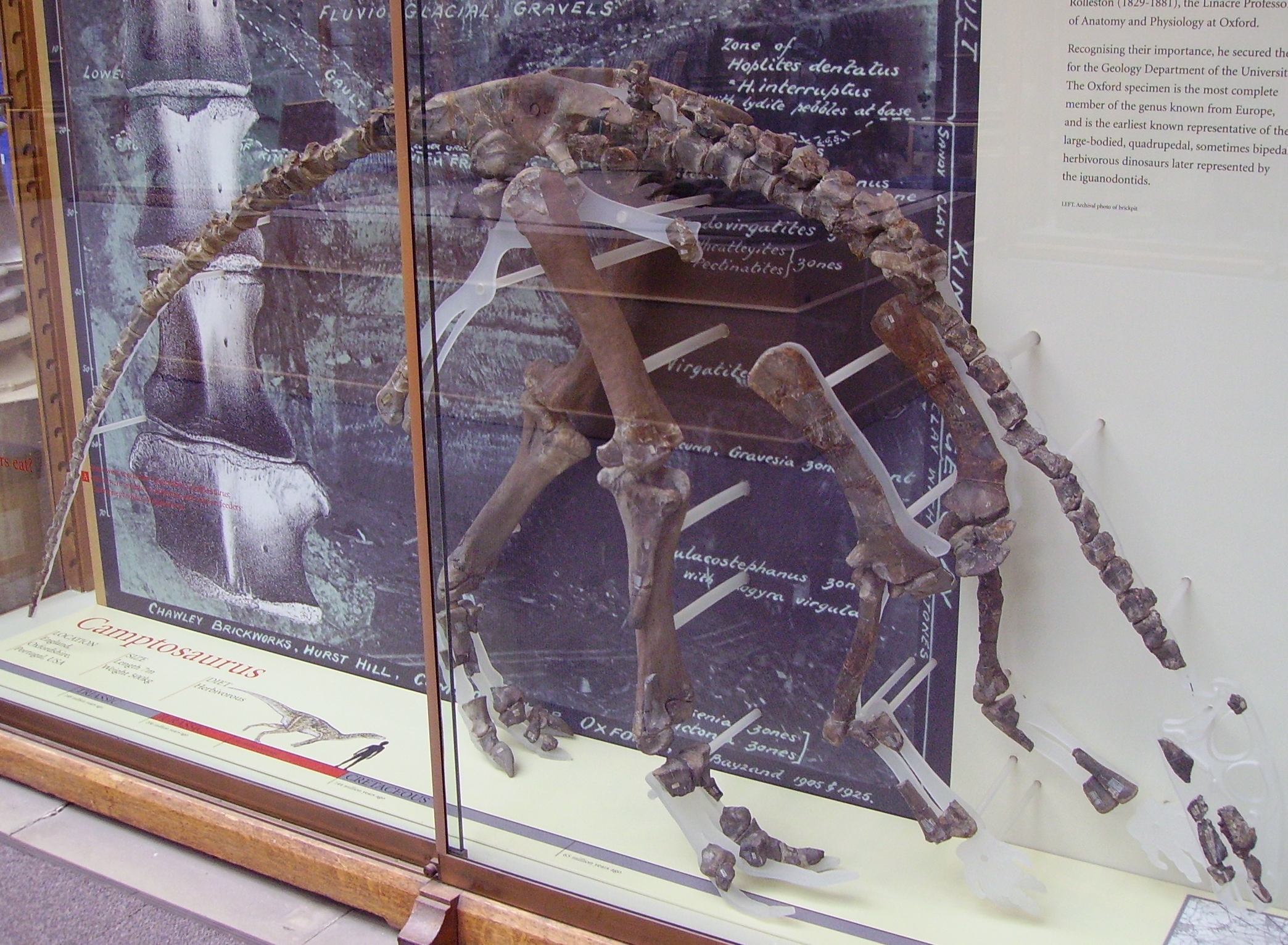 Incomplete skeleton of Camptosaurus prestwichii , now referred to as Cumnoria, Oxford University Museum of Natural History.